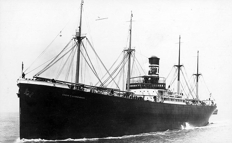 Cargo ship SS Edgar F. Luckenbach prior to her US Navy service as cargo ship and troop transport USS Edgar F. Luckenbach (ID-4597).